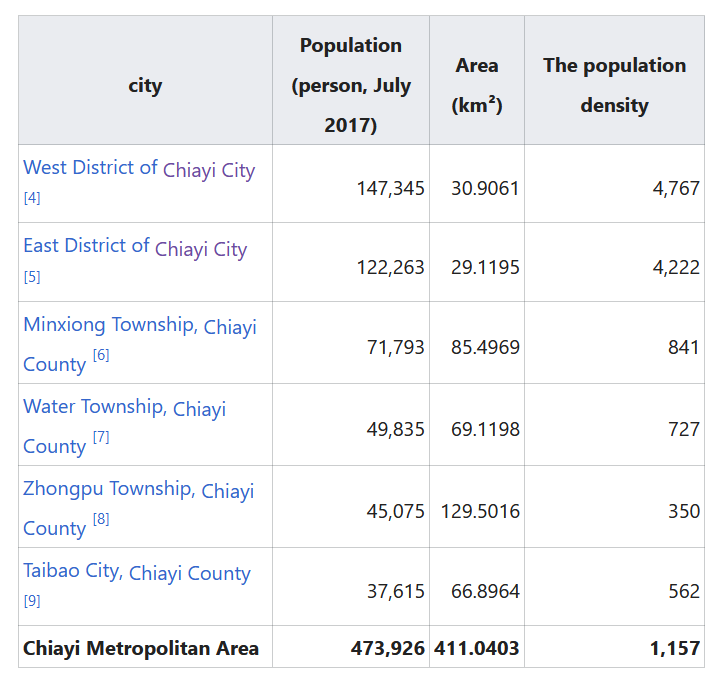 Statistics as of 2017. This graph is from the Chinese Wikipedia version of this article.